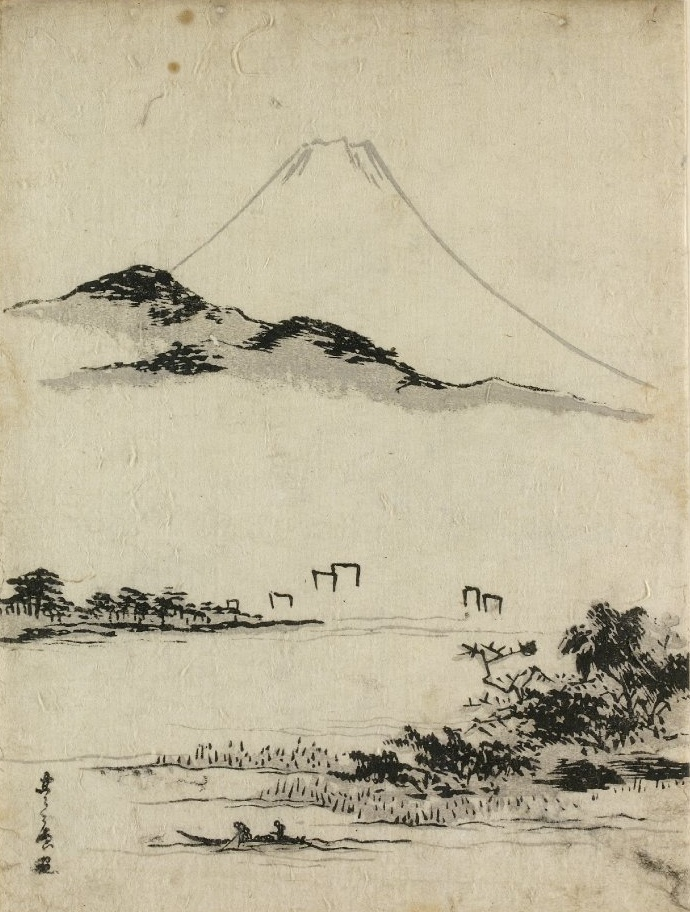 landscape print, view of Mount Fuji from Tago Bay (Tagonoura